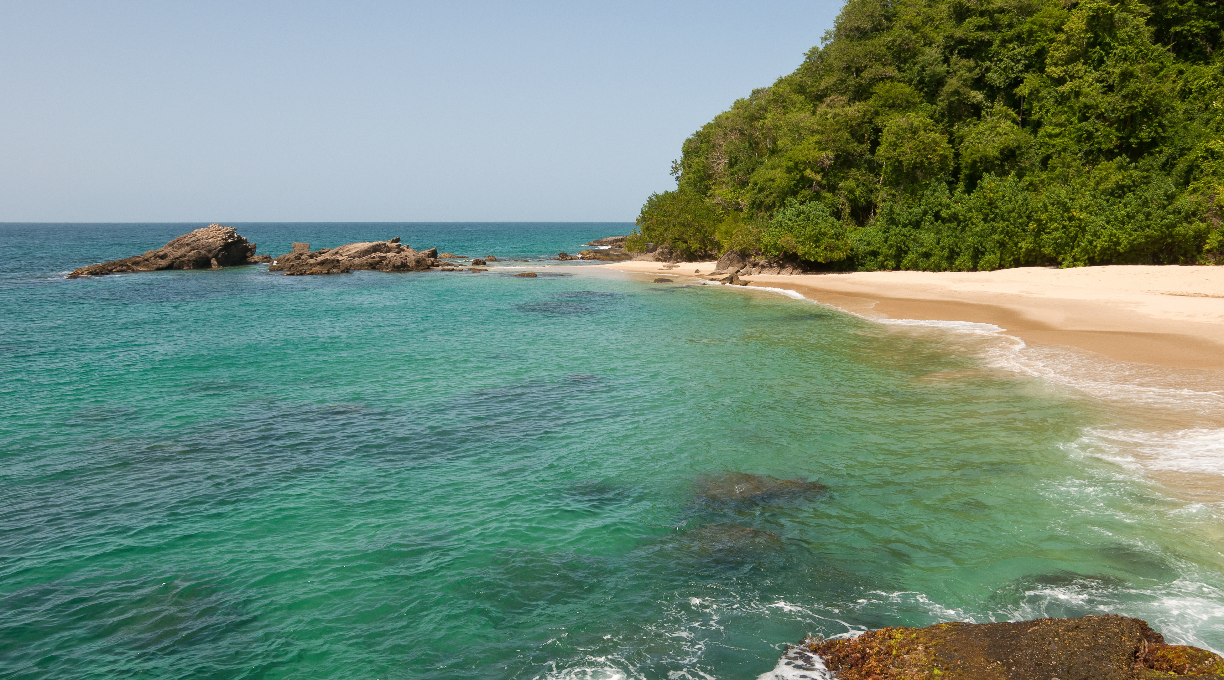 Mono Manso beach, in Venezuela.